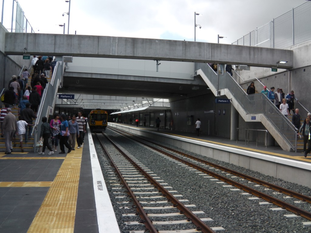 The west end of Manukau Station during a community open day on 14 April